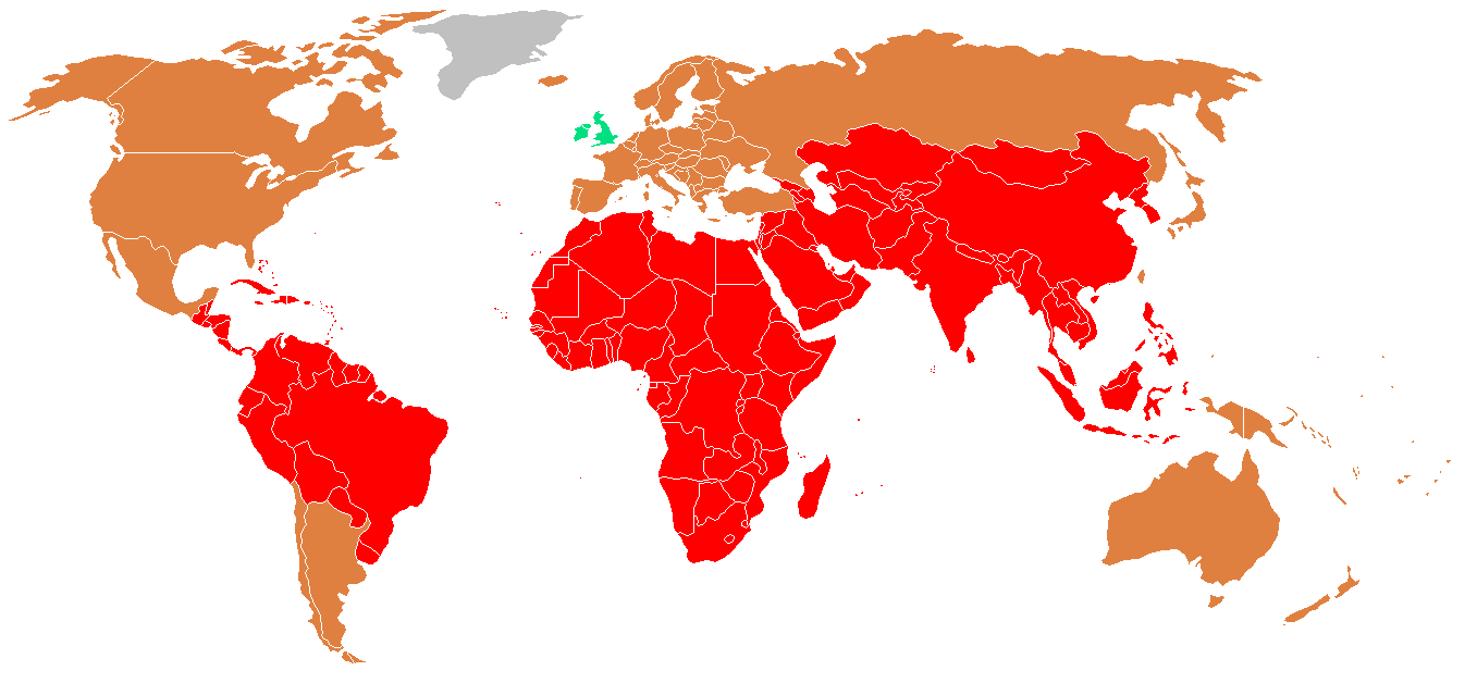 Countries with reported cases of rabies